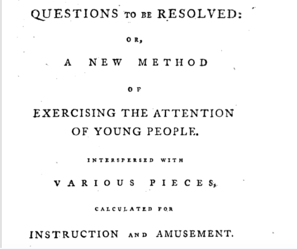 The front cover of an English translation of her original work "Questions to be Resolved: Or, A New Method of Exercising the Attention of Young People. Inspired with Various Pieces, Calculated for Instruction and Amusement"